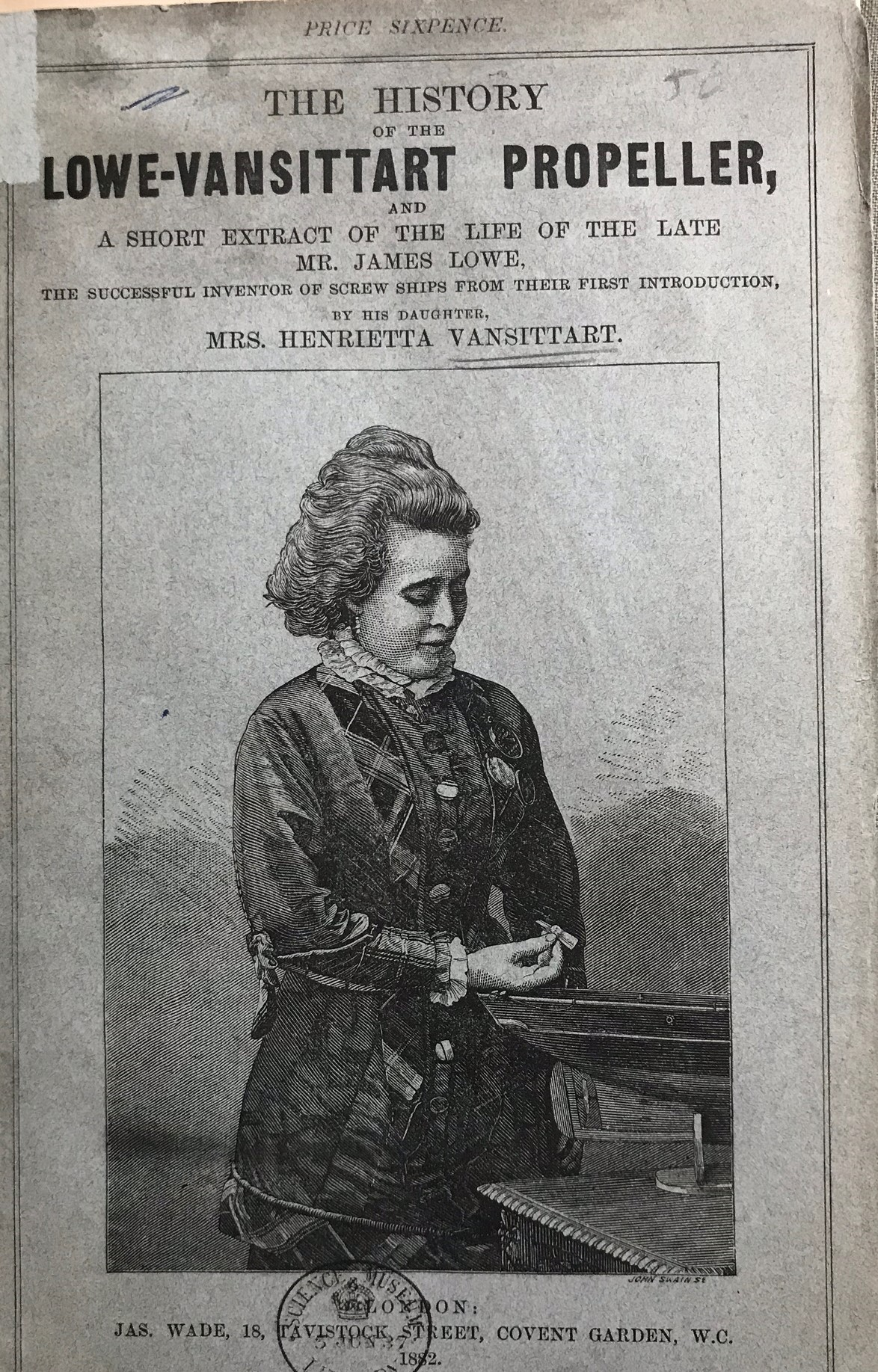 A portrait of naval engineer Henrietta Vansittart